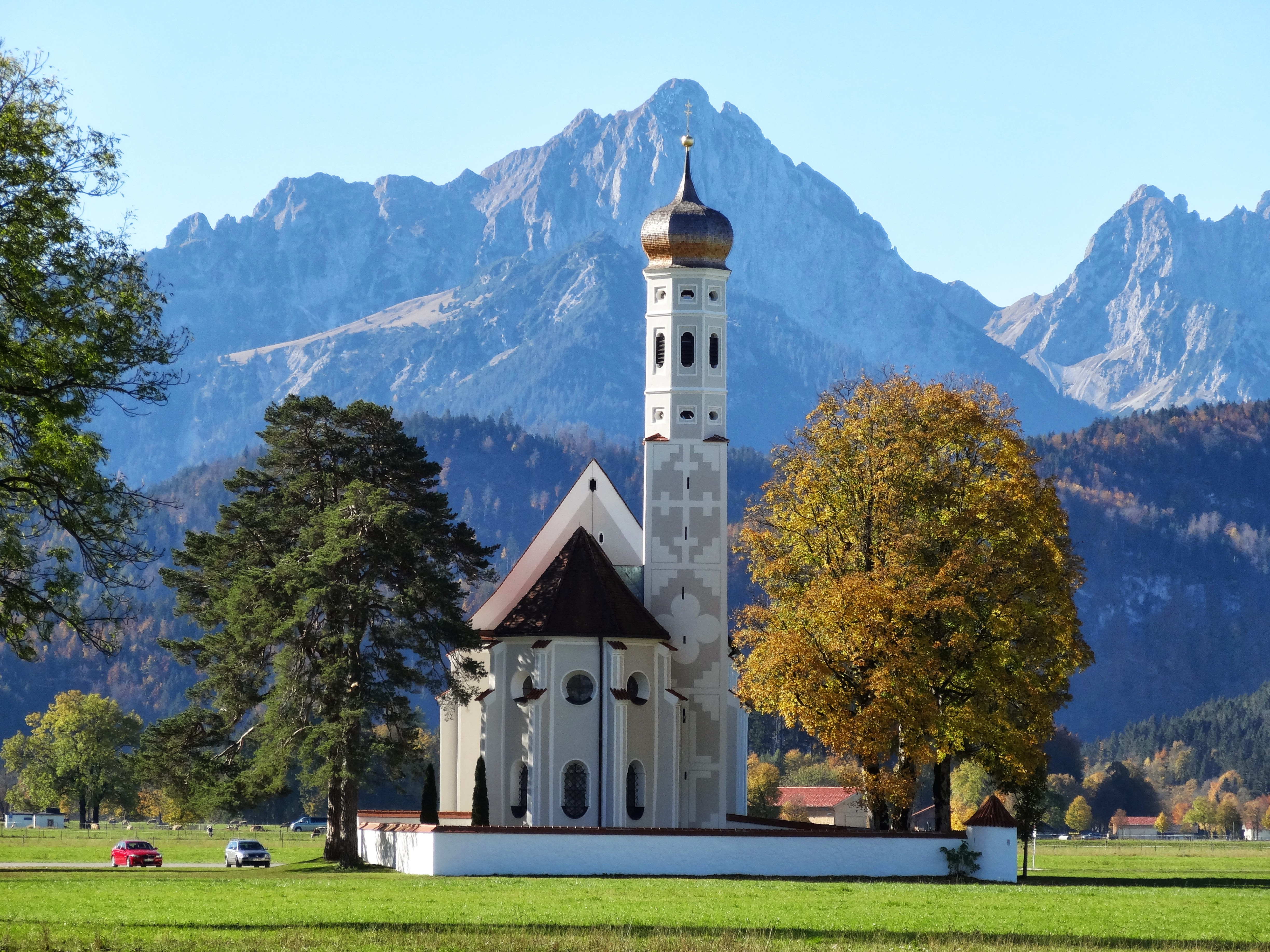 Baroque Church of Saint-Coloman